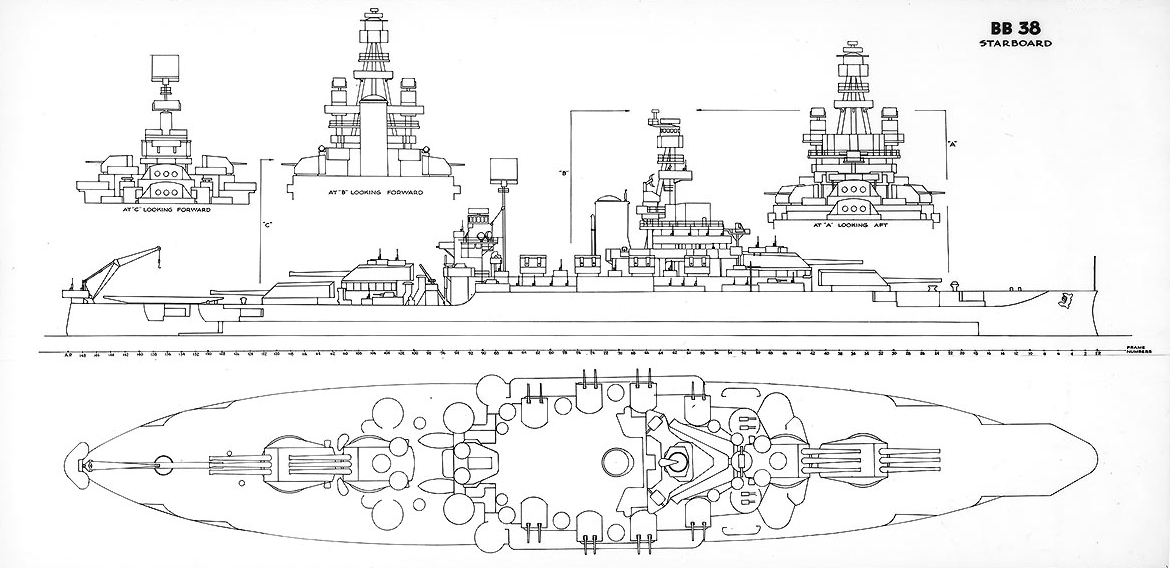 Drawing of the U.S. Navy battleship USS Pennsylvania (BB-38) prepared by the Bureau of Ships for use in preparing camouflage designs, circa 1943. This plan shows the ship's starboard side, superstructure ends and exposed decks.